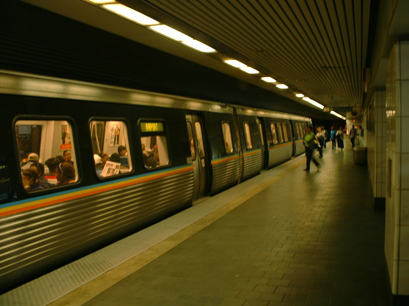 Southbound MARTA train at Civic Center Station, Atlanta, Georgia